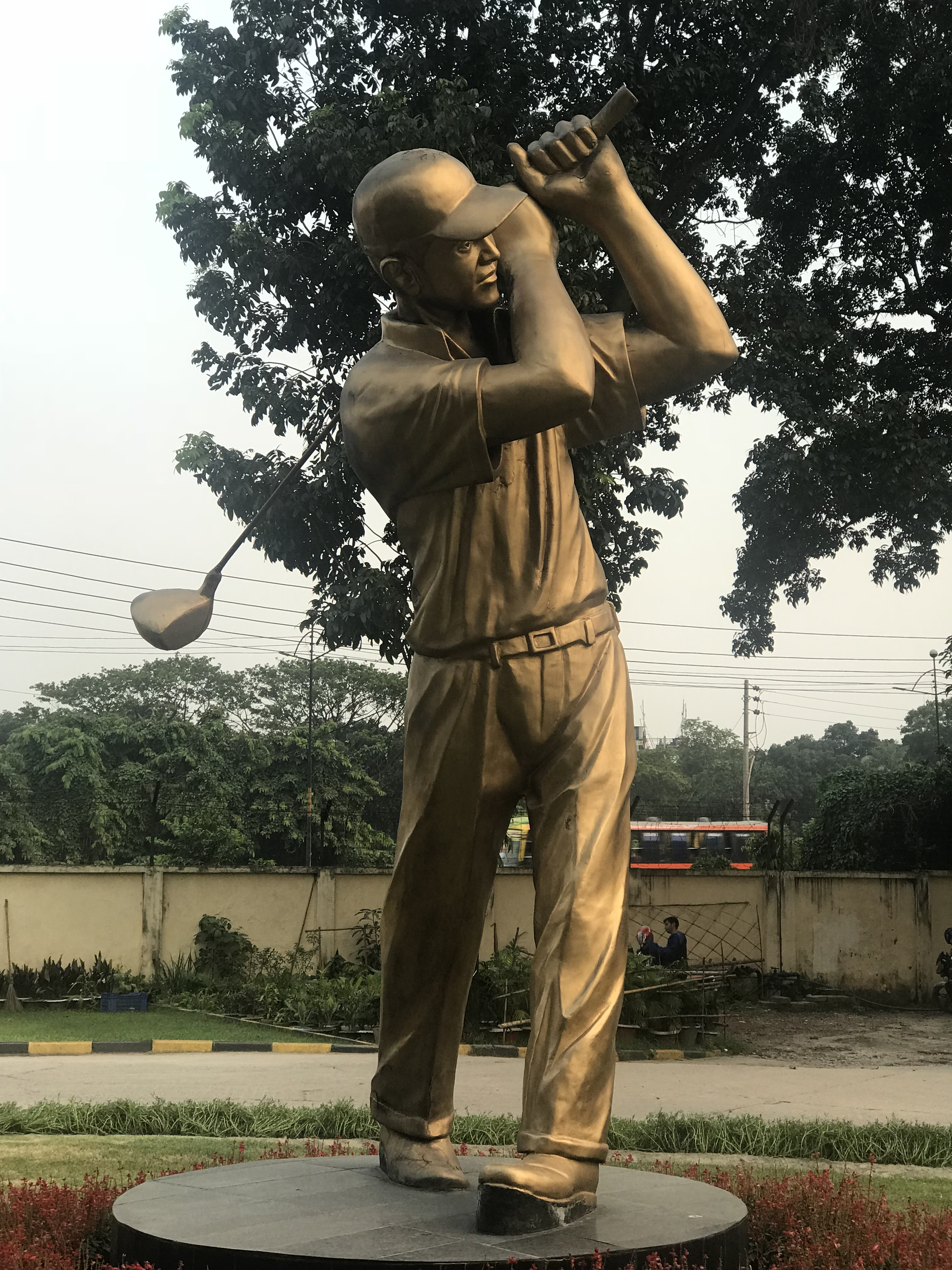 The Golf Garden is co-located with Army Golf Club. It is surrounded by Radisson Blu Dhaka Water Garden on the south, Shahjalal International Airport Airport on the north, Kurmitola General Hospital on the west.